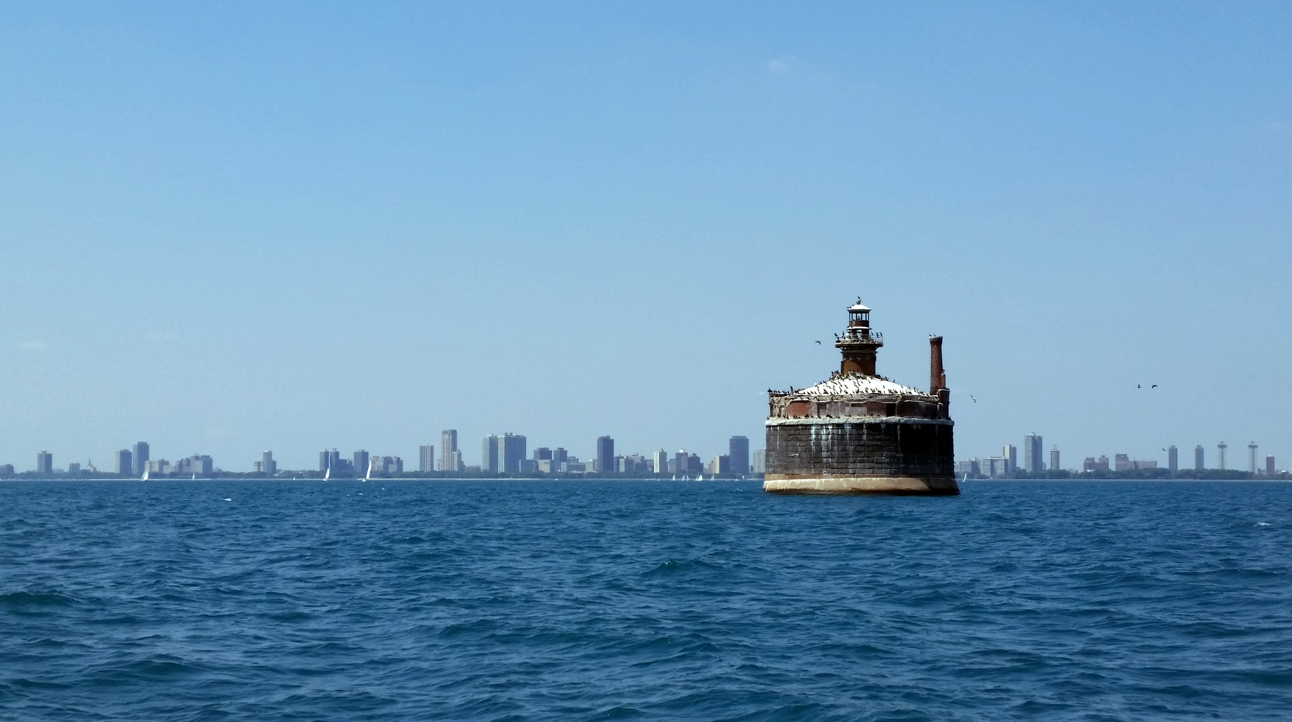 View west of the Wilson Avenue water intake crib in Lake Michigan off Montrose Point in Chicago, Illinois.